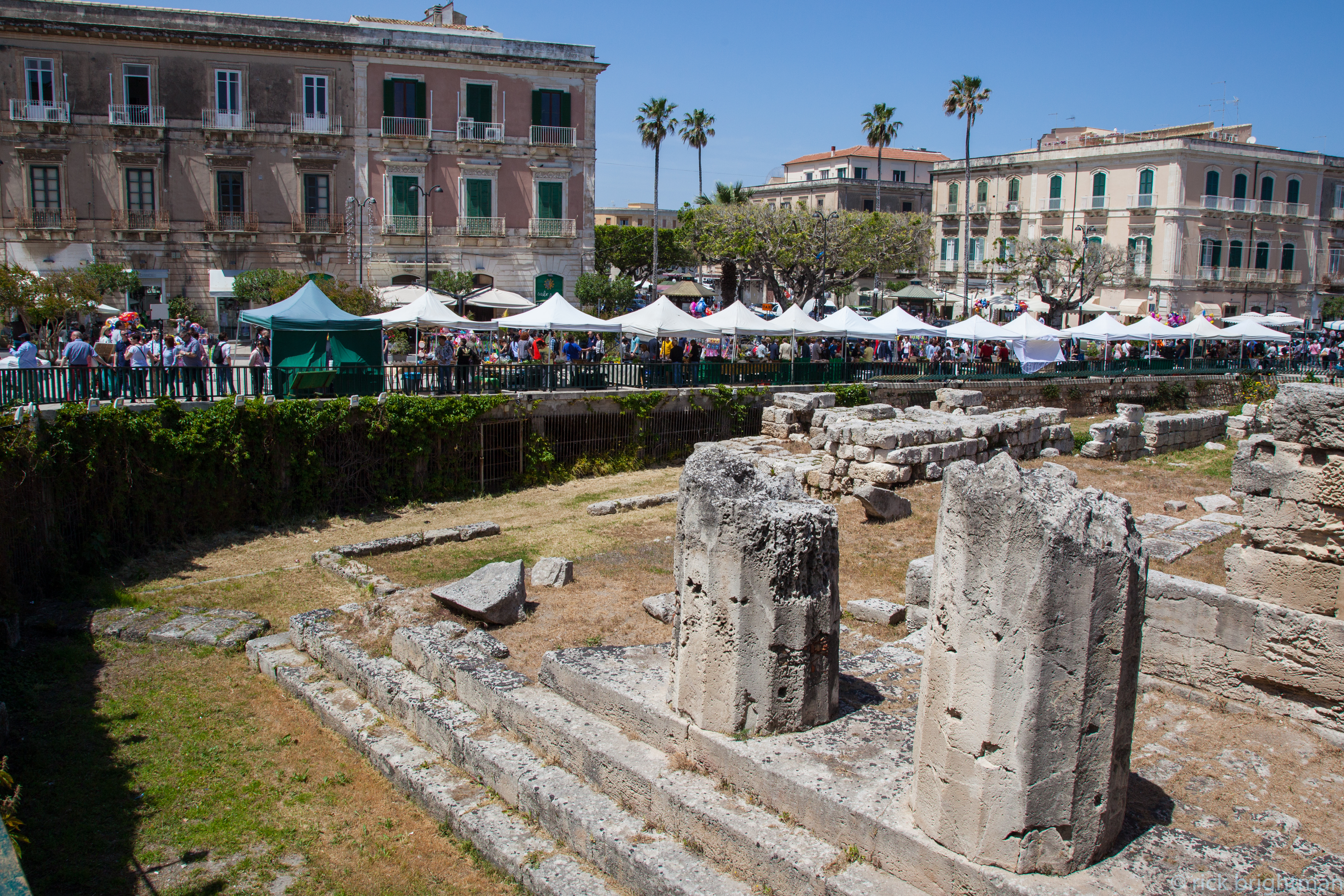 Greek Ruins, market in Ortigia, Syracuse, Sicily.